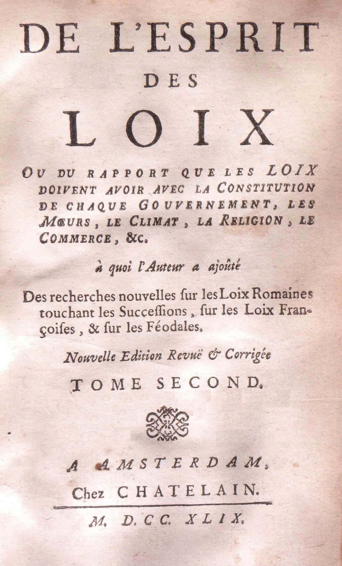 Cover of book "L'Esprit des Lois" by Montesquieu 1749 publisher : Chatelain